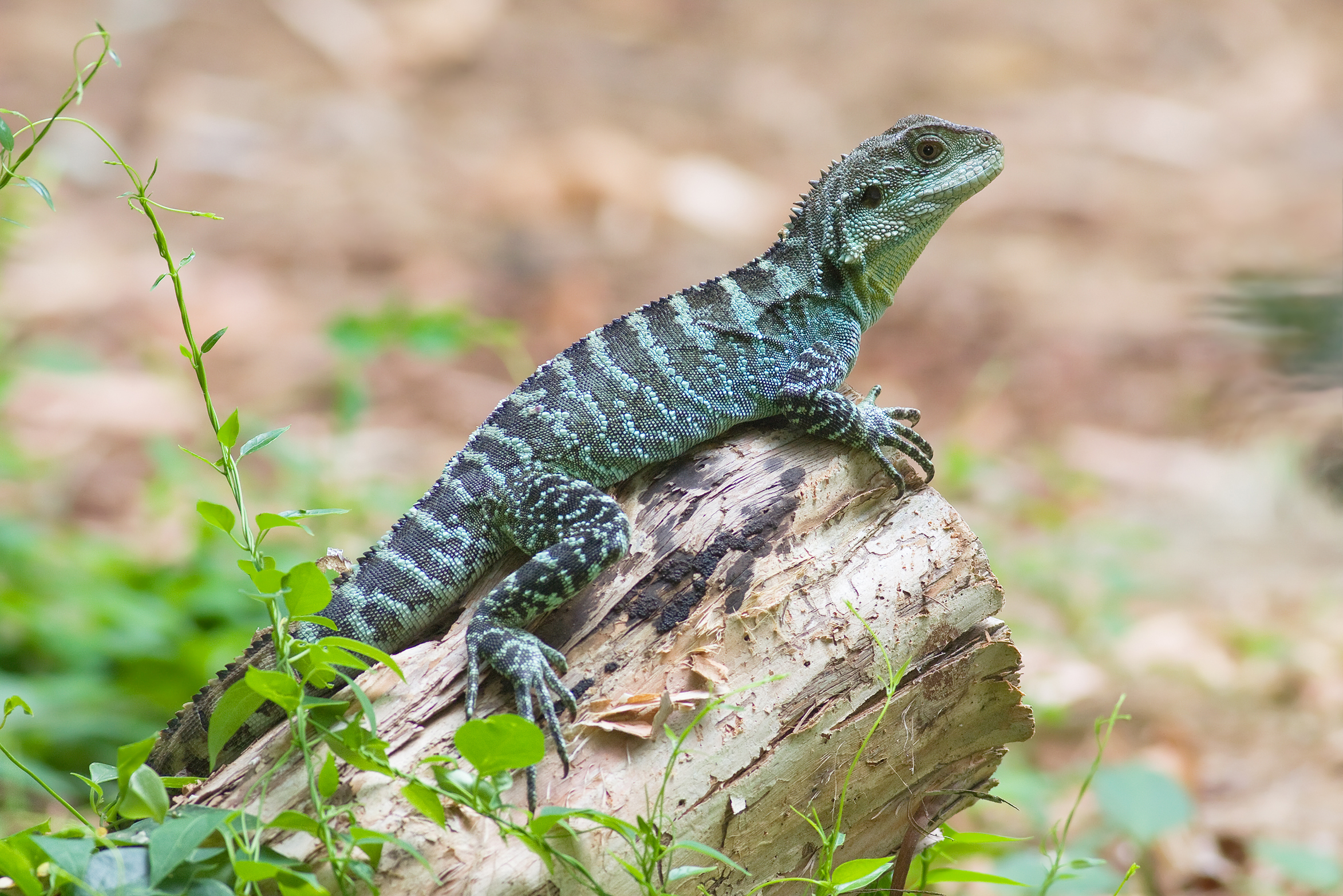 Gippsland Water Dragon (Physignathus lesueurii howittii), Australian National Botanic Gardens, Canberra, Australian Capital Territory, Australia